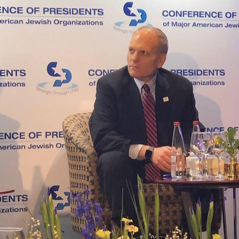 Photo of William Daroff, incoming CEO of the Conference of Presidents of Major American Jewish Organizations, in Jerusalem in February 2019.